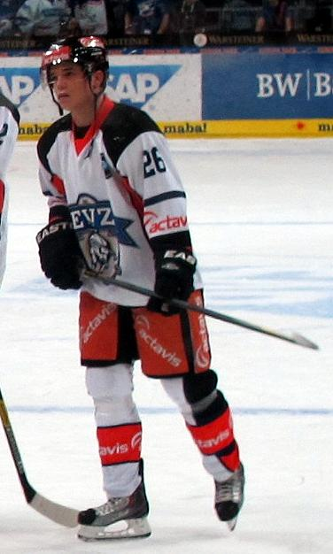 Reto Suri, ice hockey player from Switzerland, forward